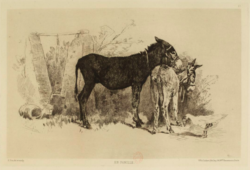 En famille, etching in L'Eau forte en 1876, Paris, Vve Cadart.